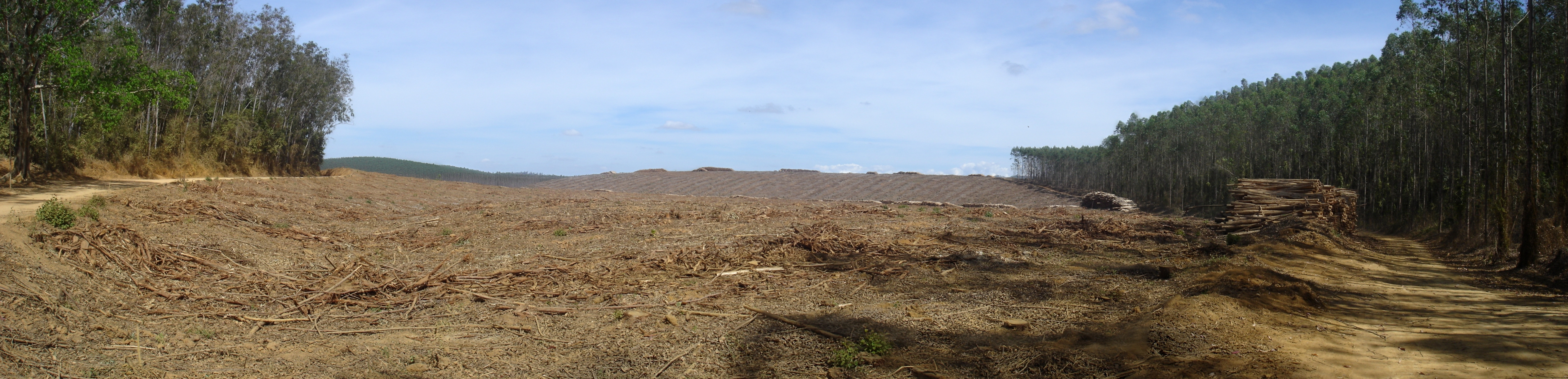 Felling of eucalyptus in Pingo-d'Água, Minas Gerais, Brazil.